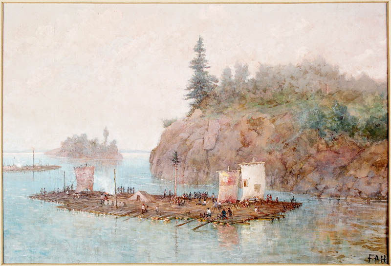 The Lumber Raft